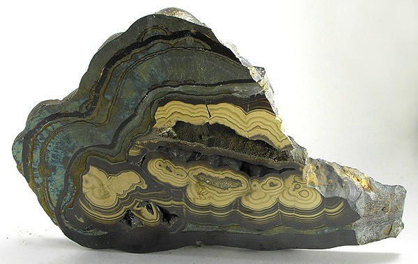 Marcasite, Galena, Sphalerite Locality: Olkusz, Olkusz District, Małopolskie, Poland (Locality at ) Size: 22.5 x 15.3 x 1.2 cm. This is a large, striking slab of banded minerals from Poland we acquired from the collection of Dave Stoudt, who was stationed in Poland for a decade and was able to buy from miners and dealers during his time there. It is a slice through essentially a boulder of alternating bands of three different minerals that were laid down in successive layers, similar to the way agate gets its bands, but with an exotic mix of minerals here rather than just quartz (as with agate).